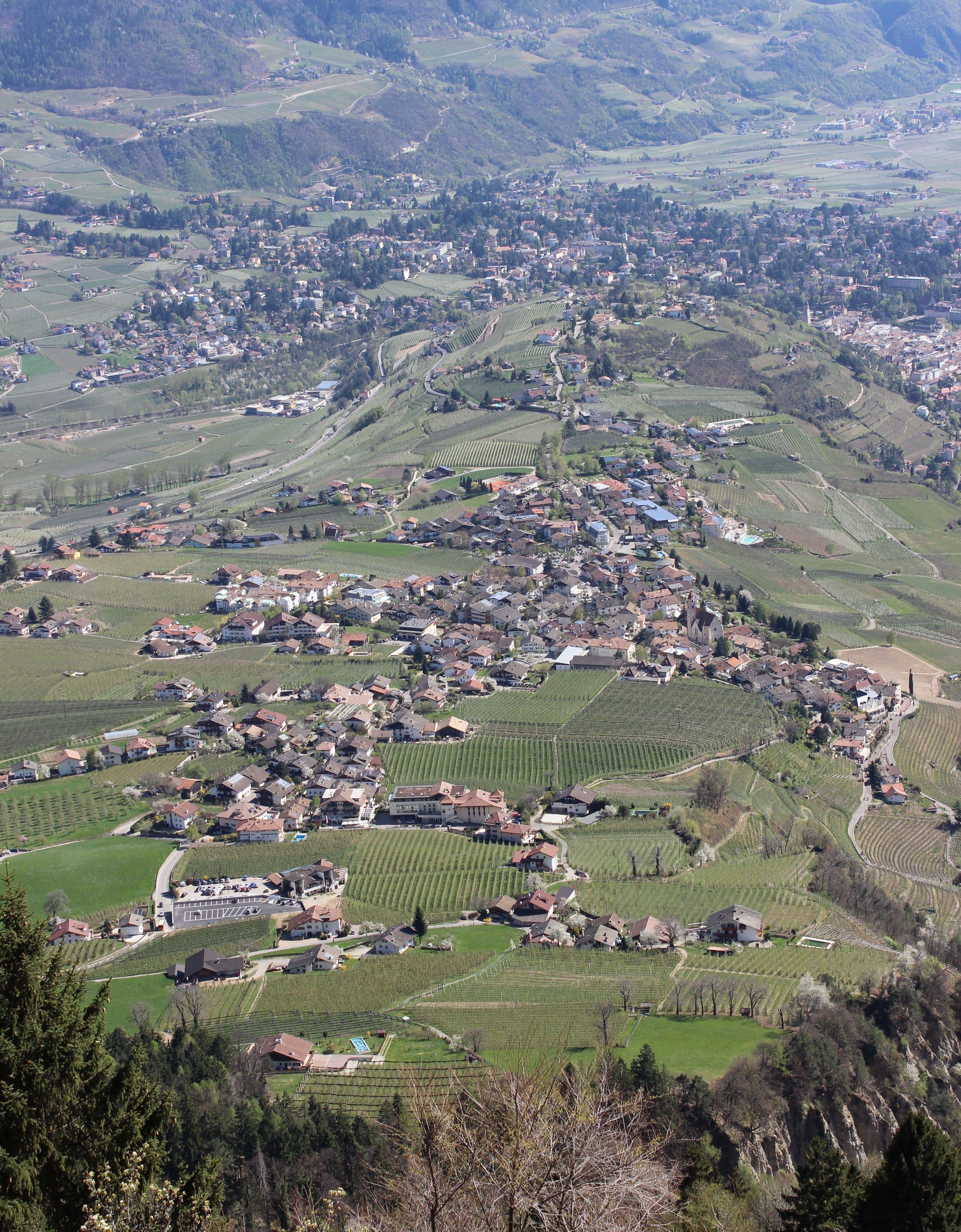 The comune Tirol in South Tyrol